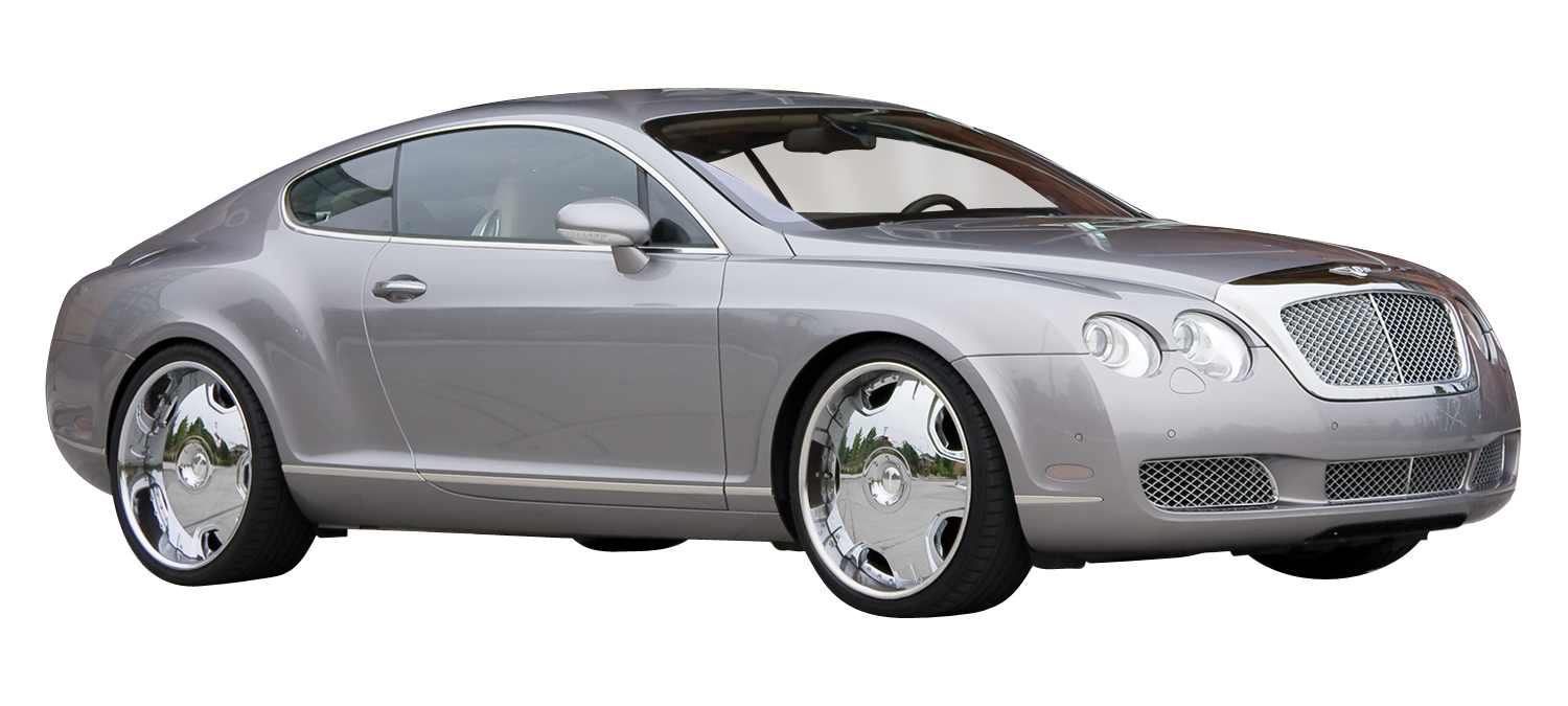 2005 Bentley Continental GT outfitted with 22-inch aftermarket wheels and low profile tires. This RGB/.png file has an associated alpha/transparency for knockout. Intended for a white background.